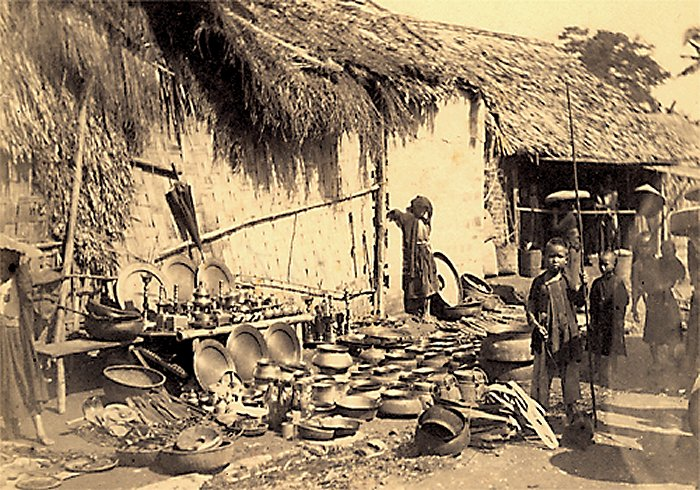 Chợ bán đồ đồng